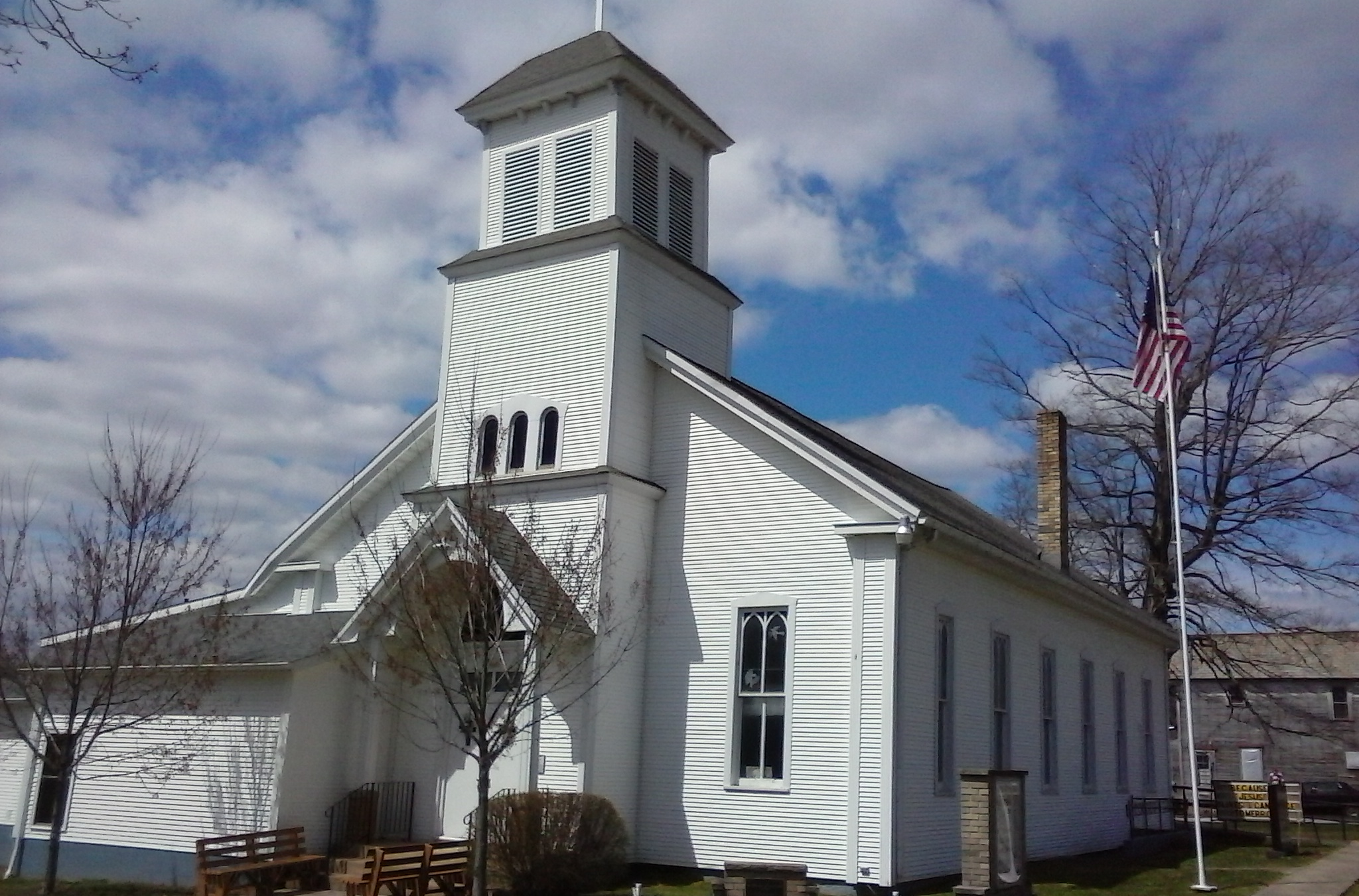 1869 Church in Newport, Tuscarawas County, Ohio